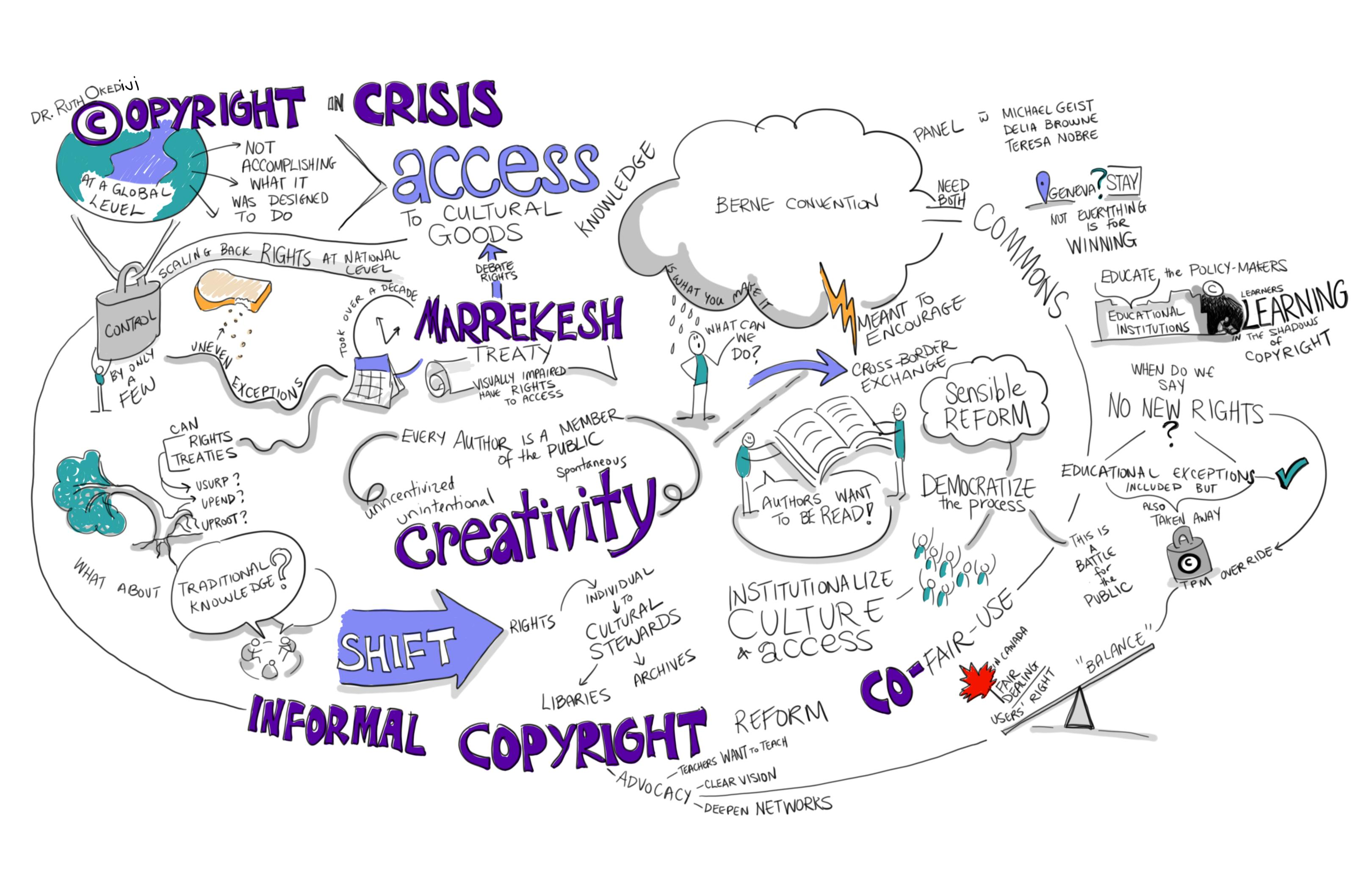 Live drawing from Ruth Okediji keynote at the Creative Commons Global Summit in Toronto, Canada, April 13-15, 2018.